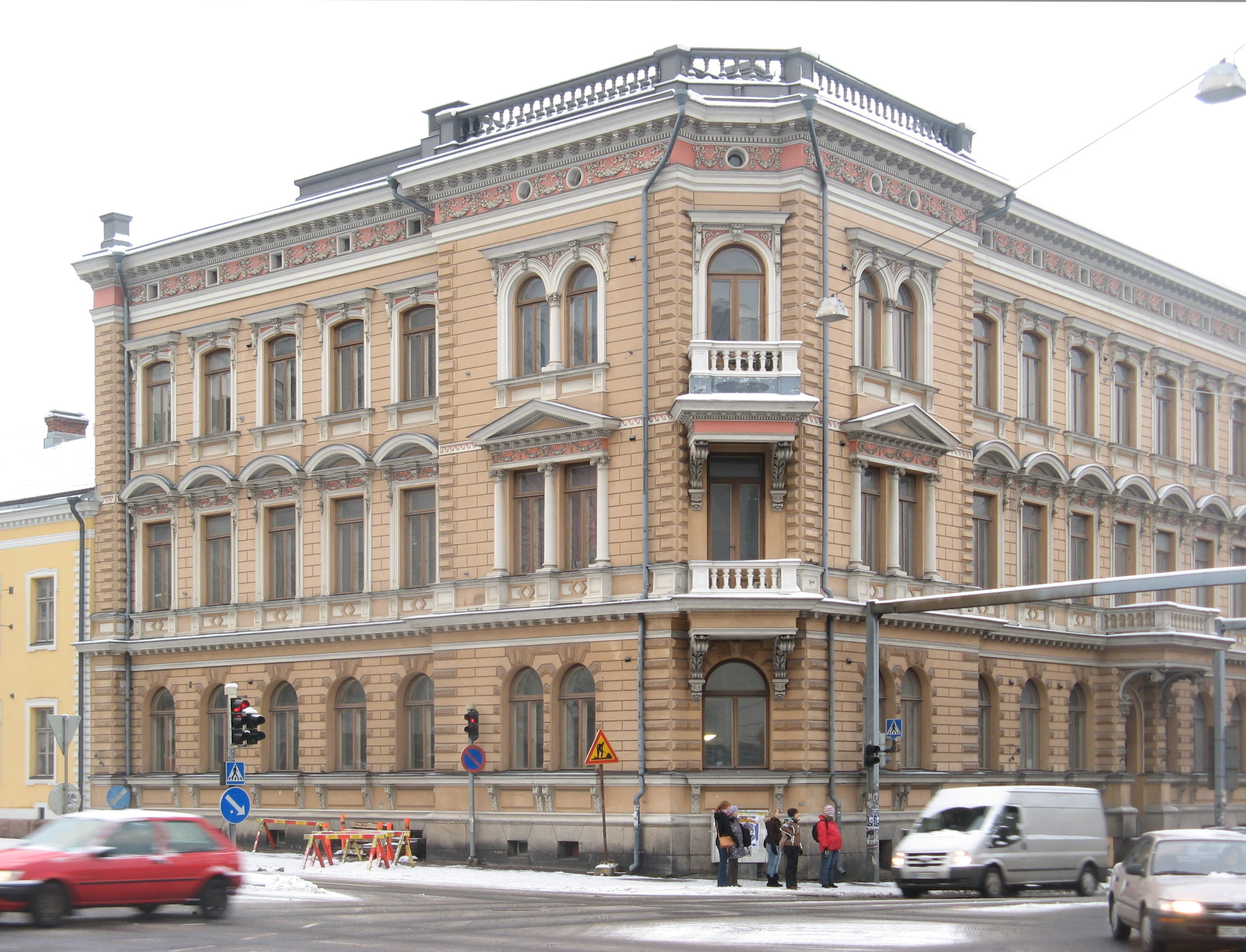 The Juselius Mansion at the Old Great Square in Turku, part of the Cultural centre, seen from the crossing of Hämeenkatu and Uudenmaankatu